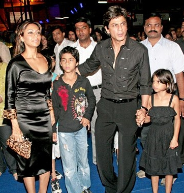 Indian actor Shah Rukh Khan with family at premiere of Drona